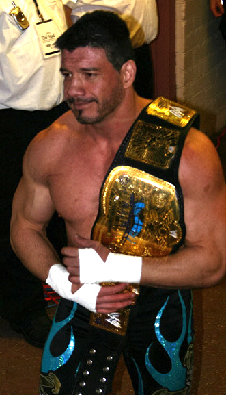 Eddie Guerrero during a WWE house show held in Kitchener, Ontario, Canada on January 15, 2005eddie with gold